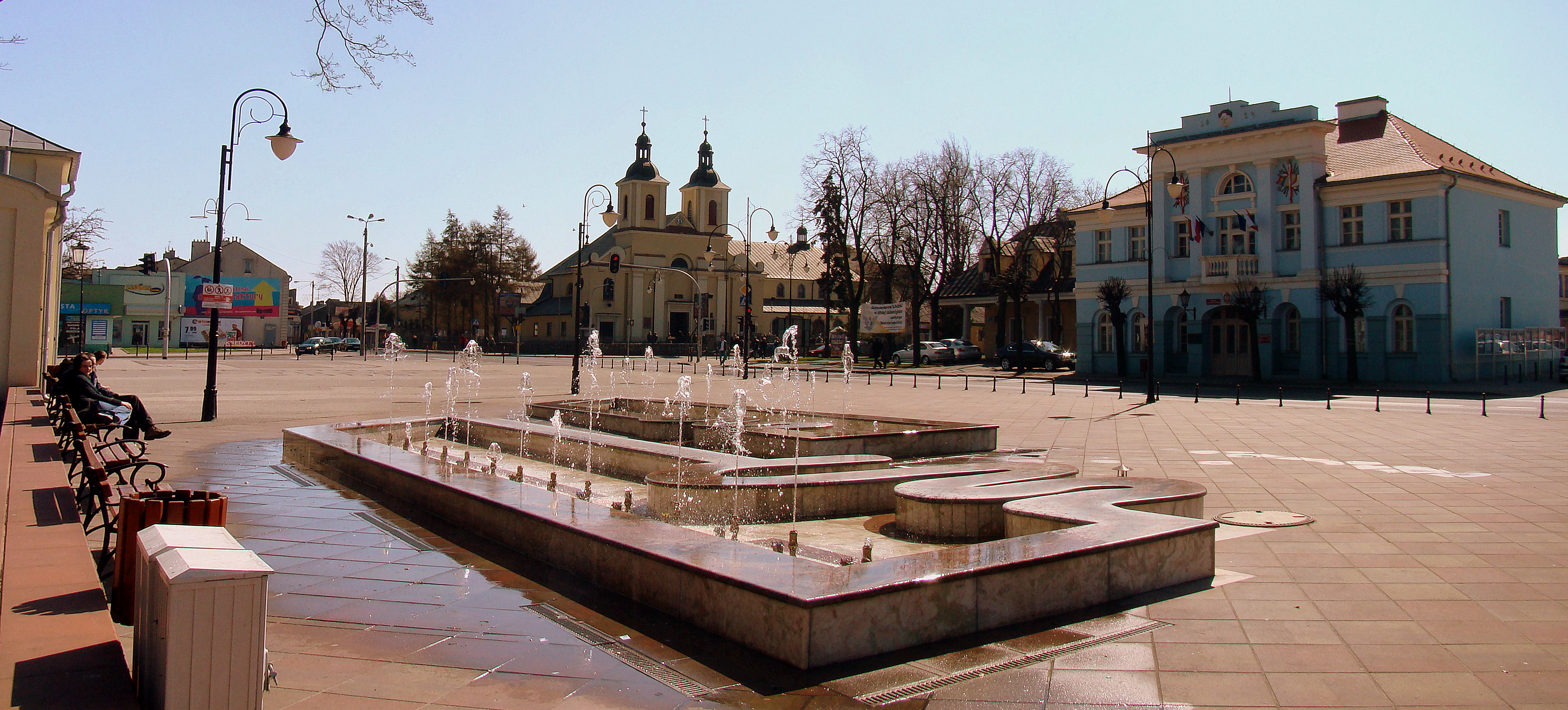 Kosciuszki Square in Aleksandrow Lodzki (Zgierz County, Lodz Voivodeship), Poland